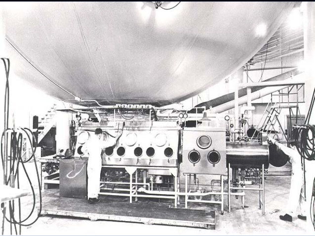 Million-liter test sphere, Fort Detrick, Maryland, USA